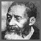 A photograph of former slave, Fountain Hughes